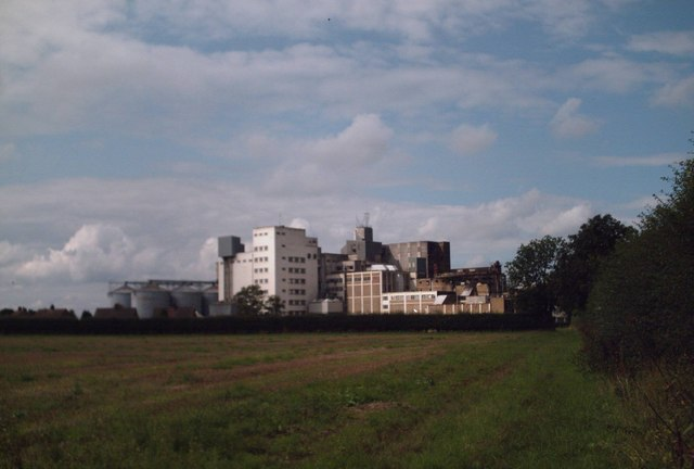 Knapton Maltings. Prominently seen from the A64 between Malton and Scarborough, Knapton Maltings is part of the Irish Greencore Group - claiming to be the biggest maltster in UK producing at Knapton and three other sites